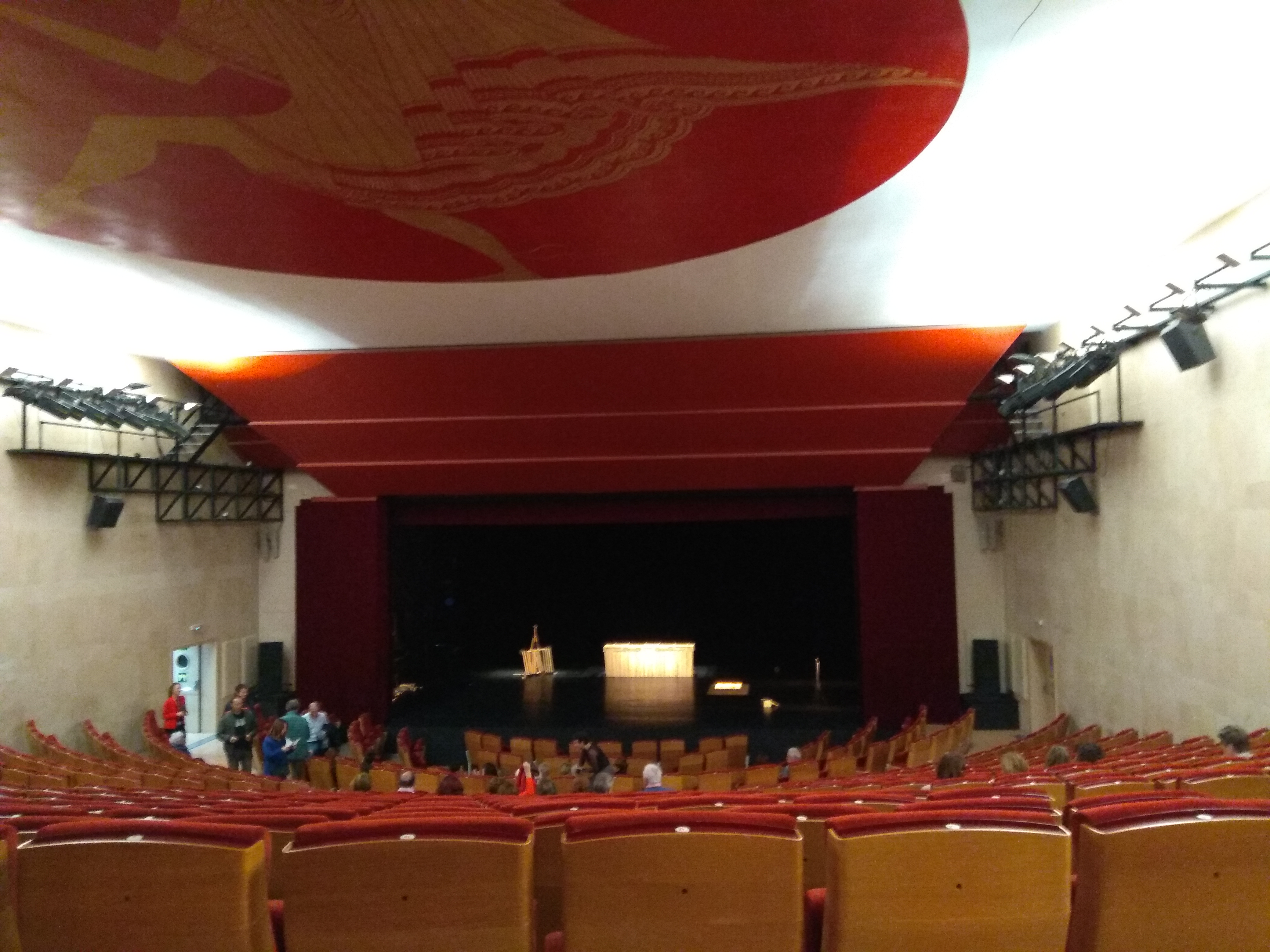 Sala Pereda of the Festival Palace of Santander (Cantabria, Spain)